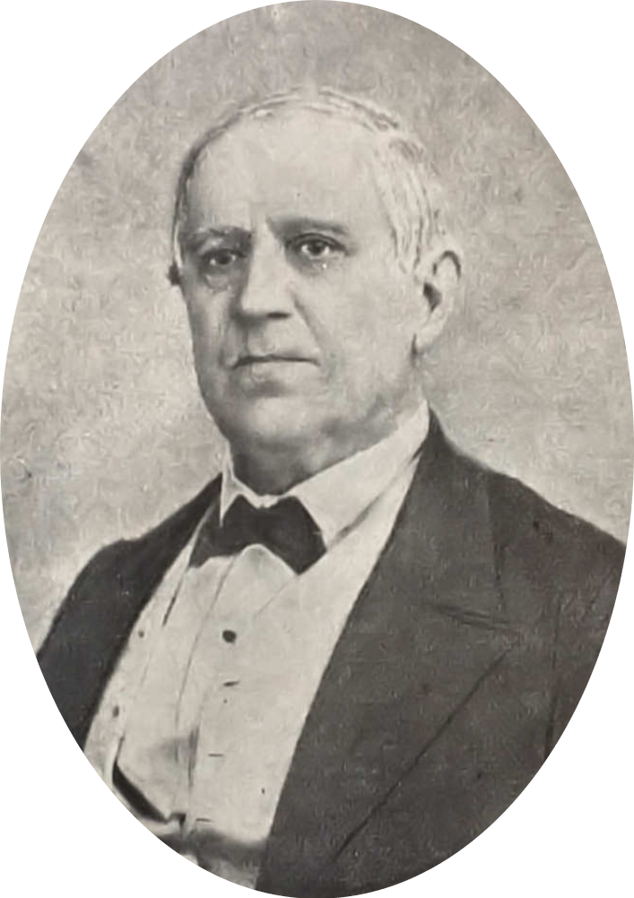 António Luís de Seabra, 1st Viscount of Seabra (1798-1895)